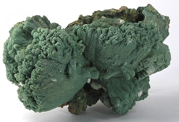 Stilbite-Ca, Celadonite Locality: Jalgaon District, Maharashtra, India (Locality at ) Size: 12.9 x 7.4 x 5.8 cm. A large specimen of bizarre green stilbite, which gets its color from inclusions of celadonite. This specimen features two large clusters that look like flower blossoms, on a thin matrix.